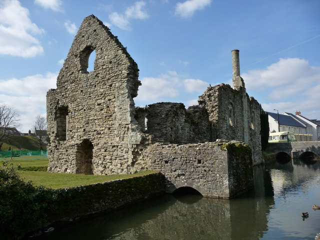 Christchurch, Dorset - The Constables House